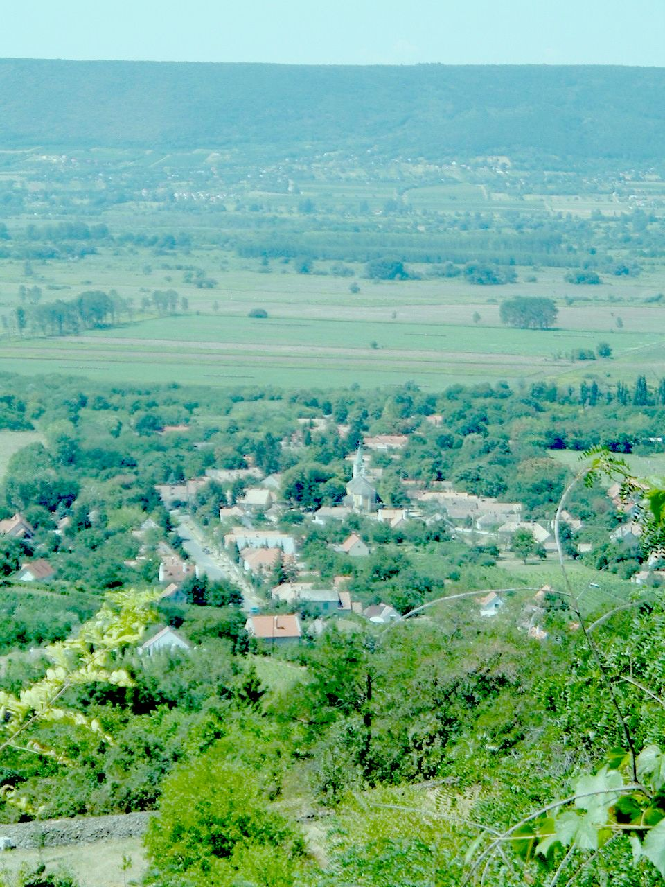 Hegymagas from the Mount Szent György